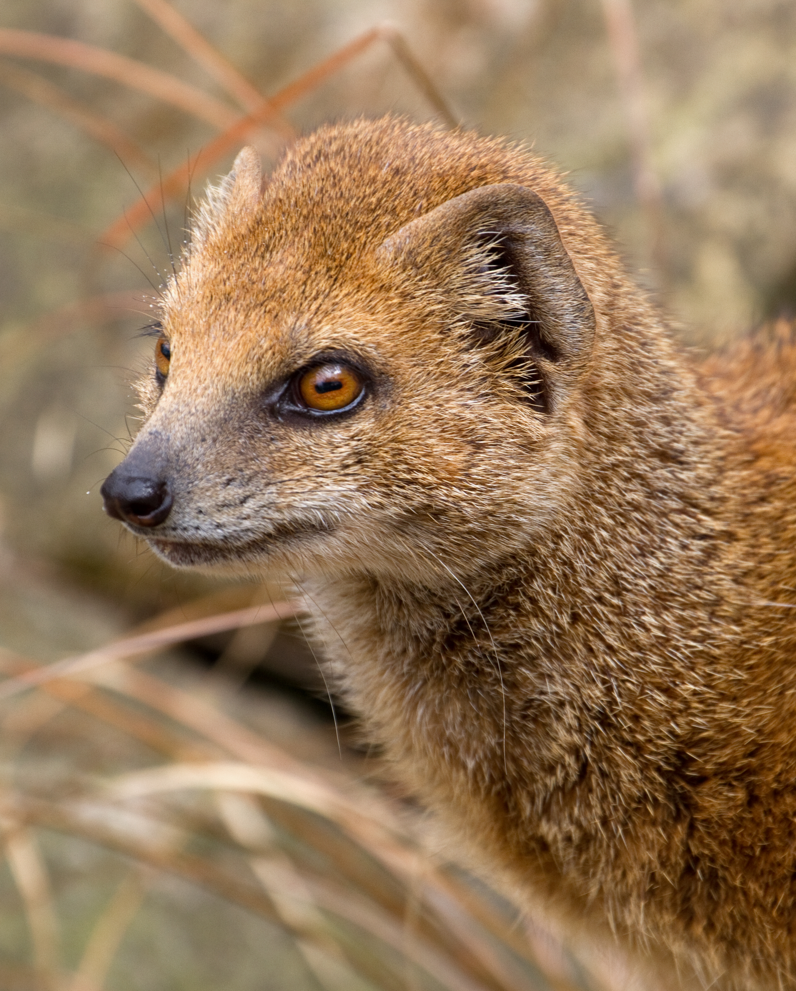 Yellow Mongoose 1